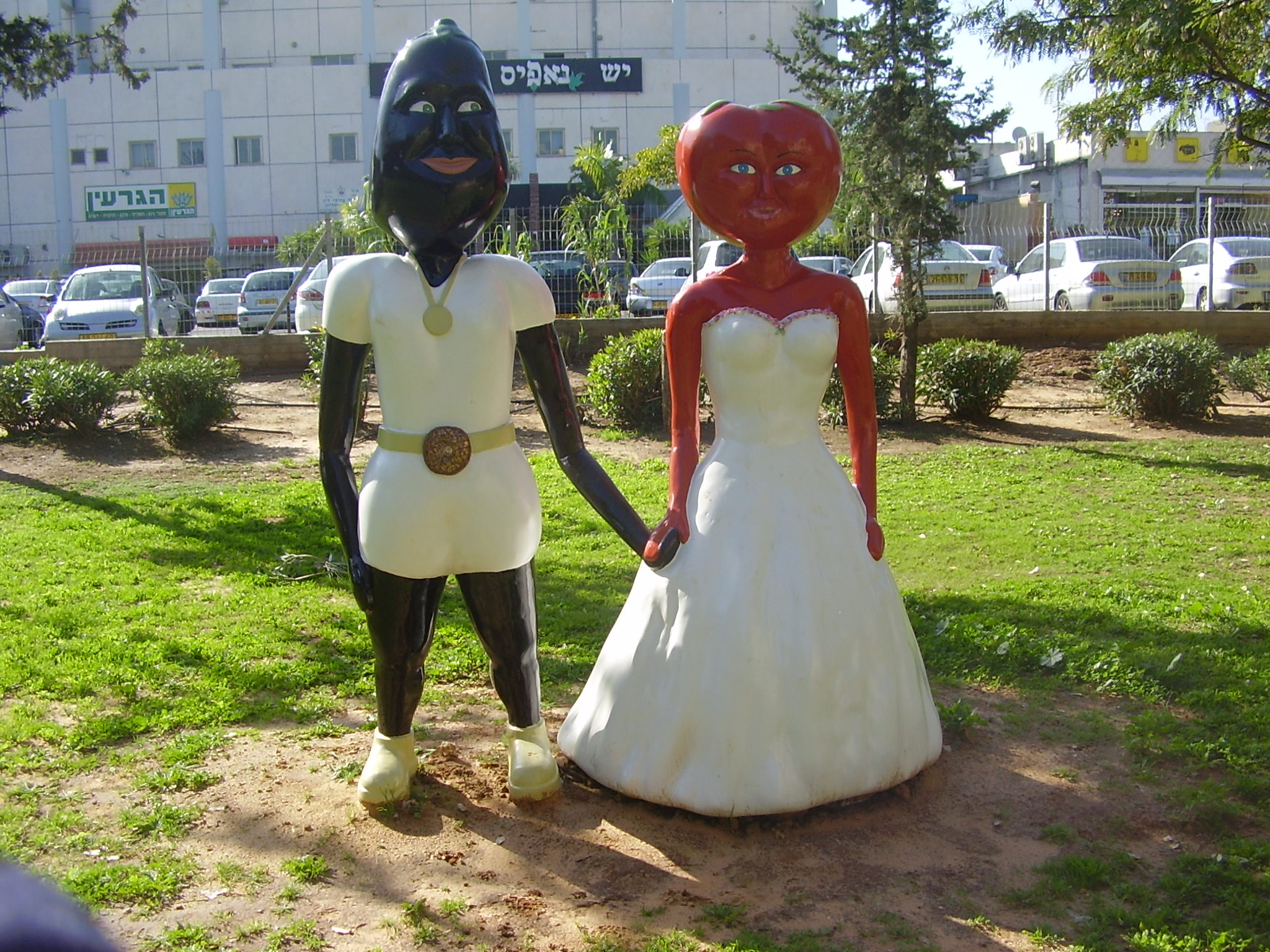 story garden "garden wedding" in holon